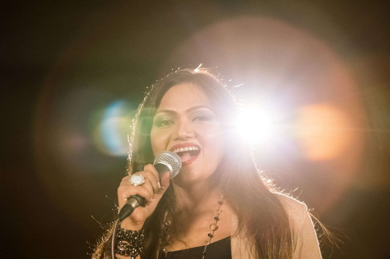 Anupama Raag photo from one of her videos.